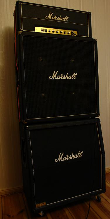 Marshall Full Stack